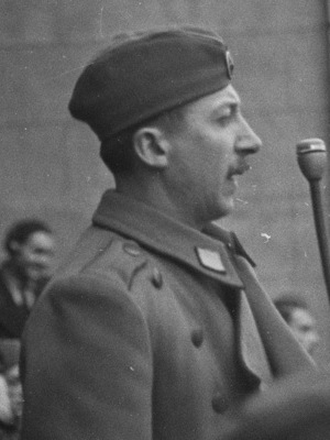 Inventarski broj: VIS 154 20